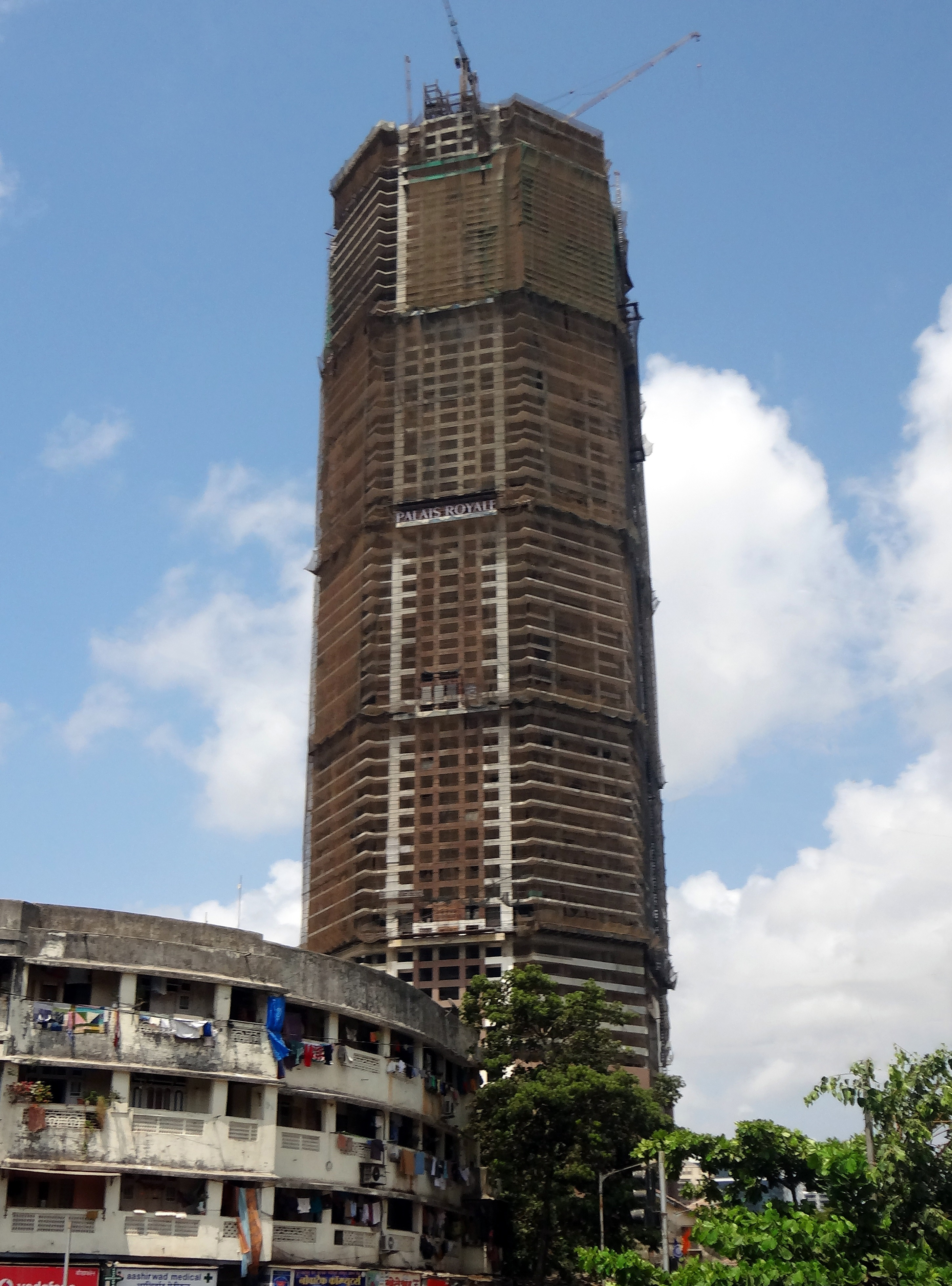 Palais Royale under construction in Mumbai.